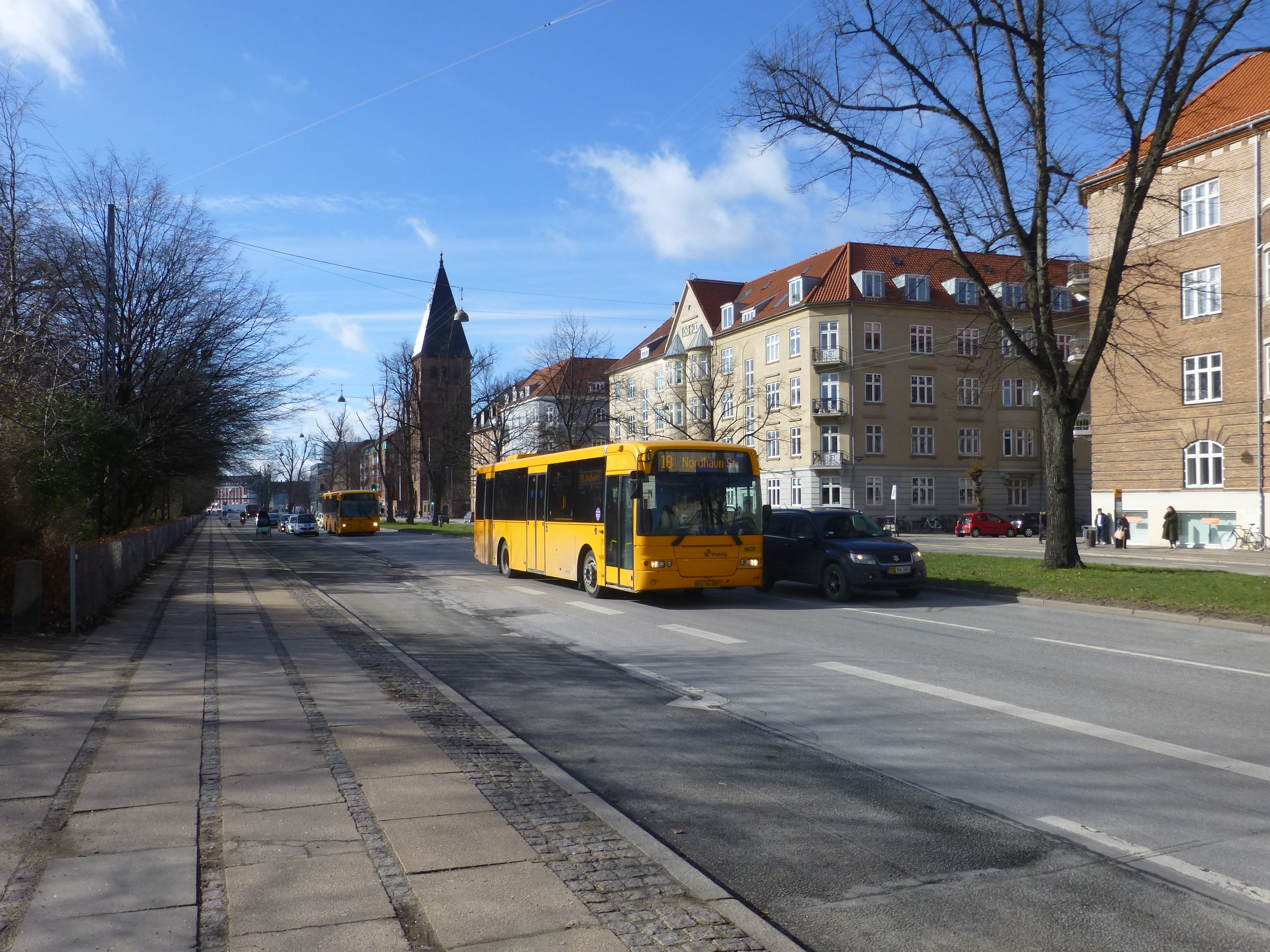 Movia bus line 18 on Jagtvej at Vennemindevej in Østerbro in Copenhagen.